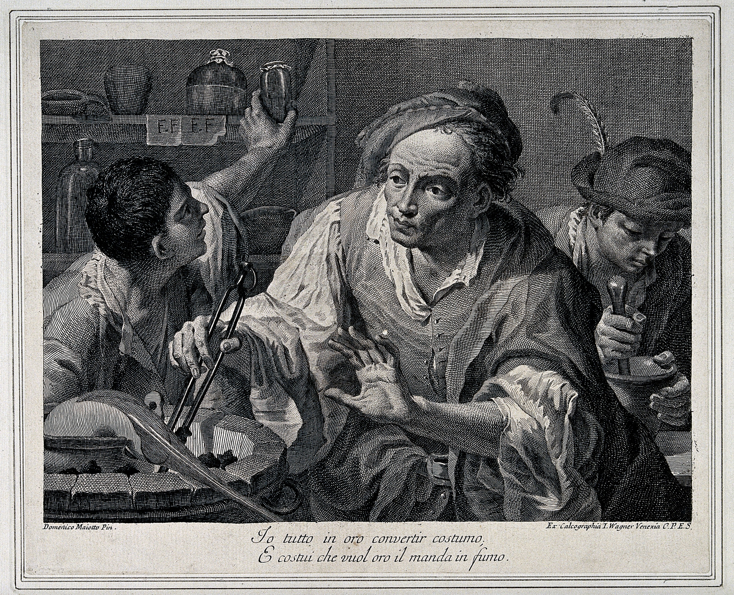 An alchemist holding tongs at his furnace. Etching by J. Wagner after D. Maggiotto. Iconographic Collections Keywords: Joseph Wagner; alchemist; Domenico Maggiotto